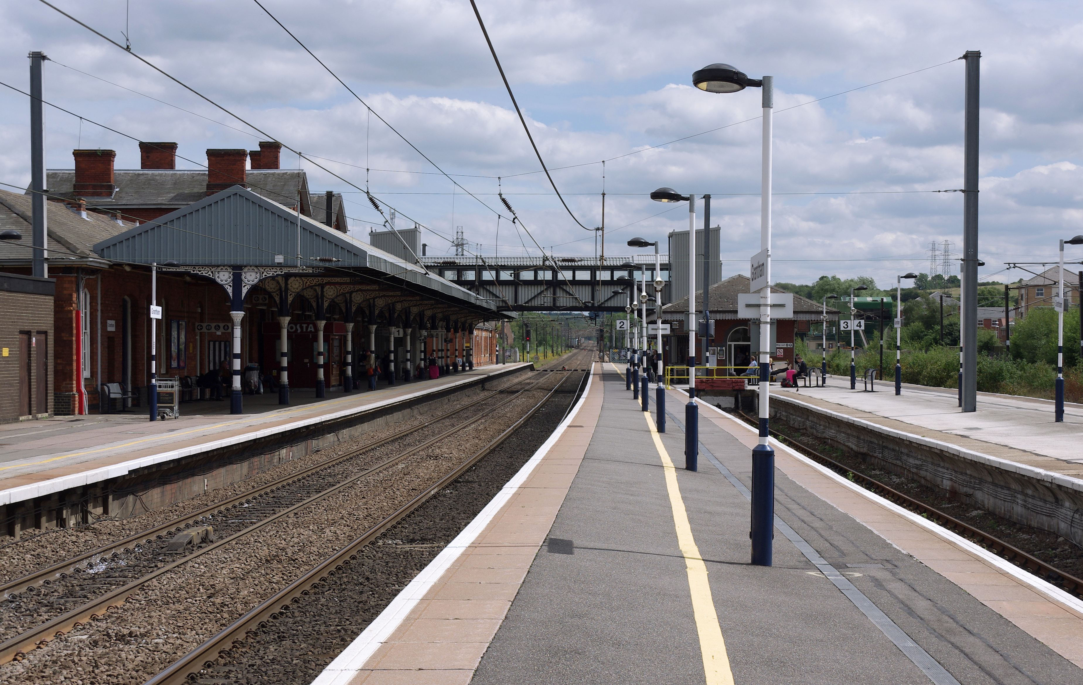 Looking south along the platforms at Grantham railway station.